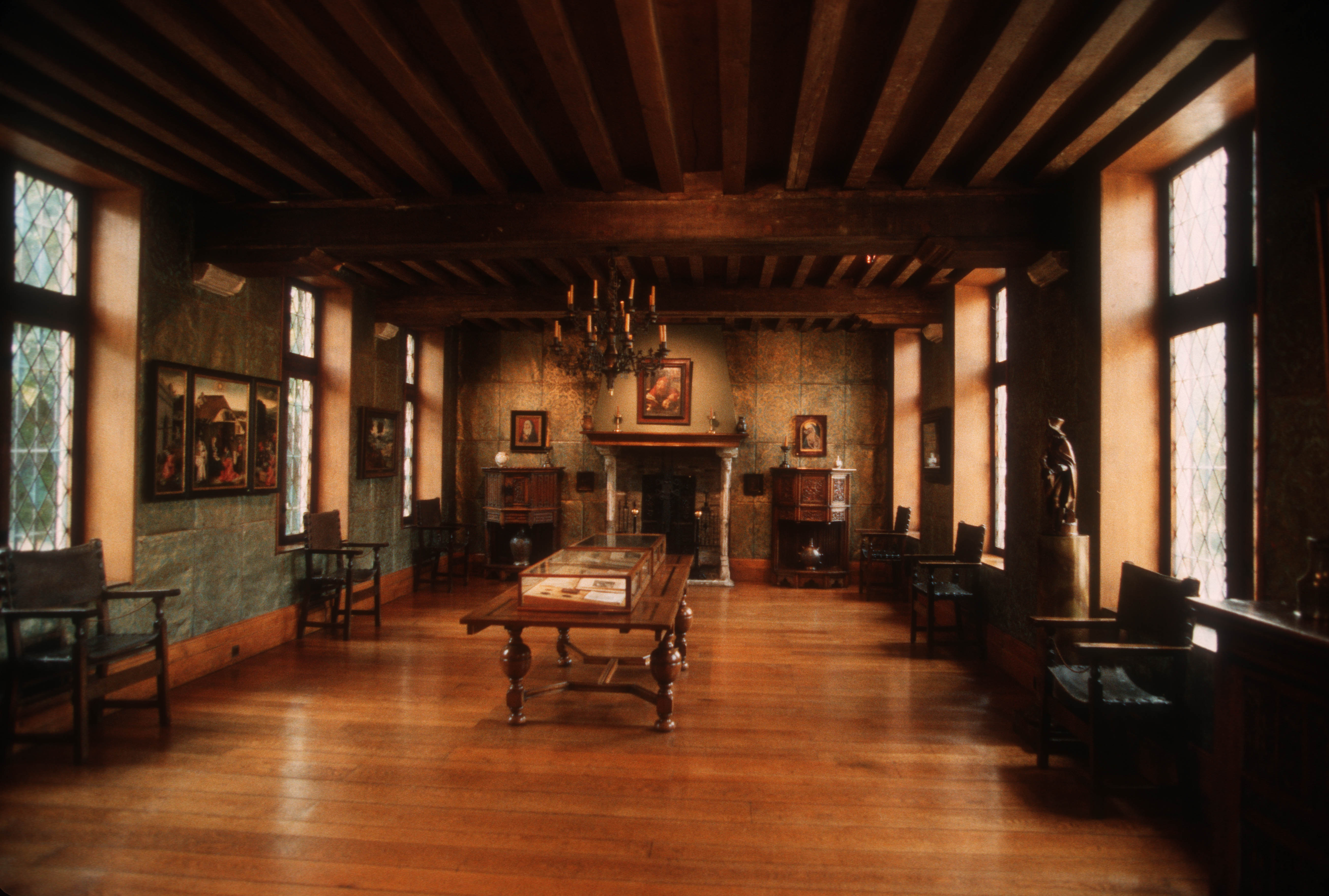 ERASMUS HOUSE AT ANDERLECHT